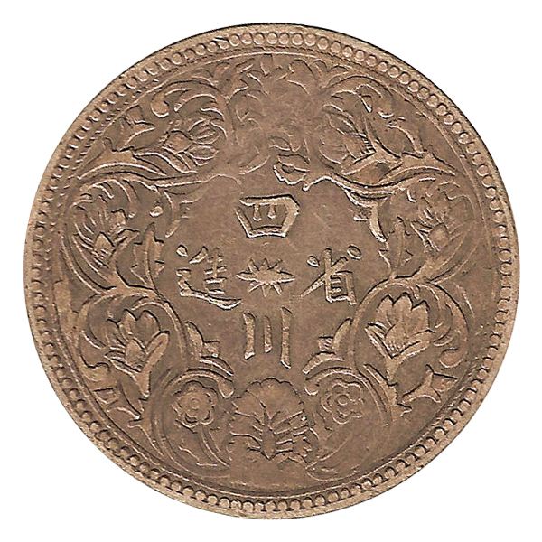 Sichuan rupee, struck in Chengdu, for use in Tibet. Reverse